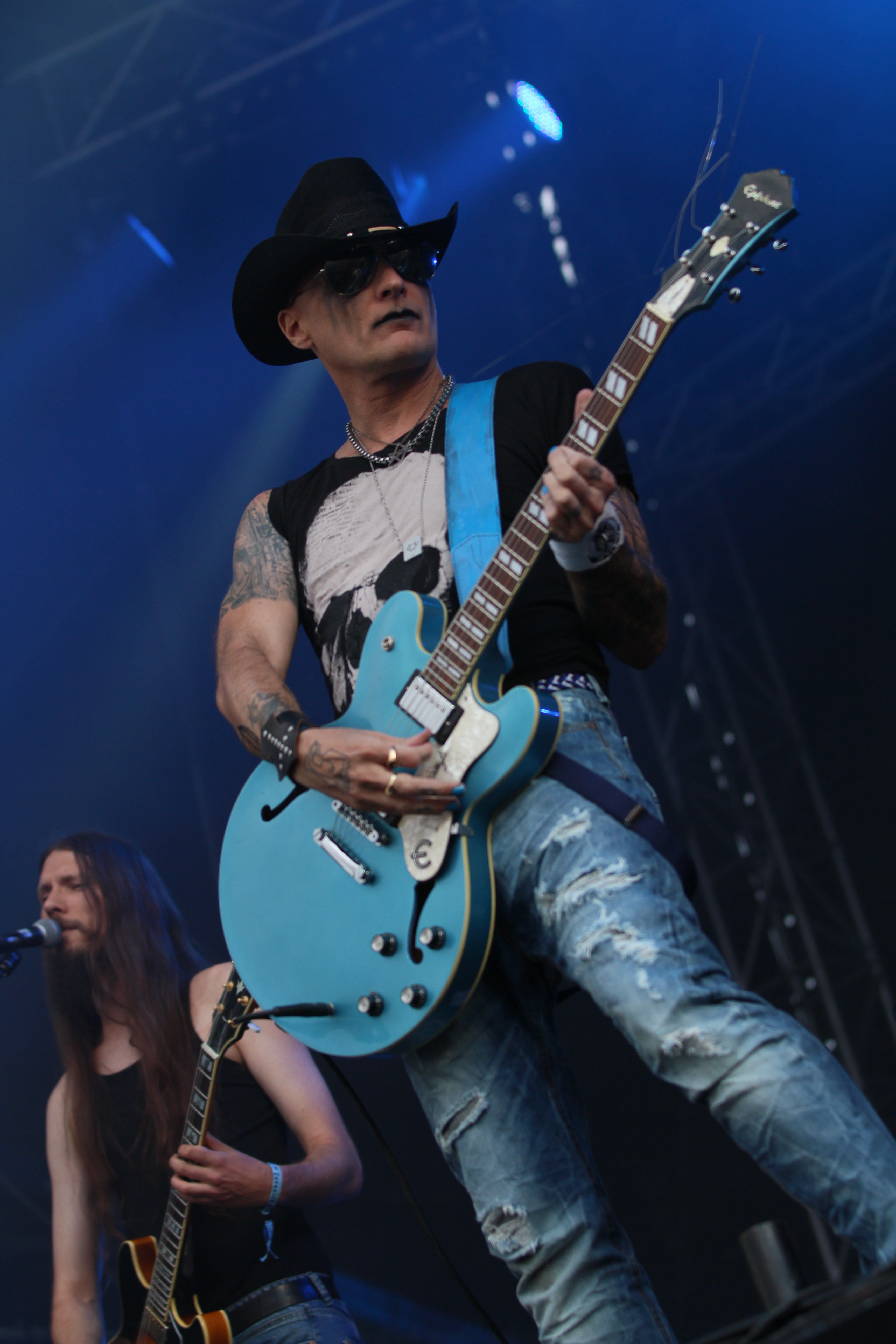 The Swedish gothic metal band Tiamat at the Rockharz Open Air 2014 in Ballenstedt/Germany